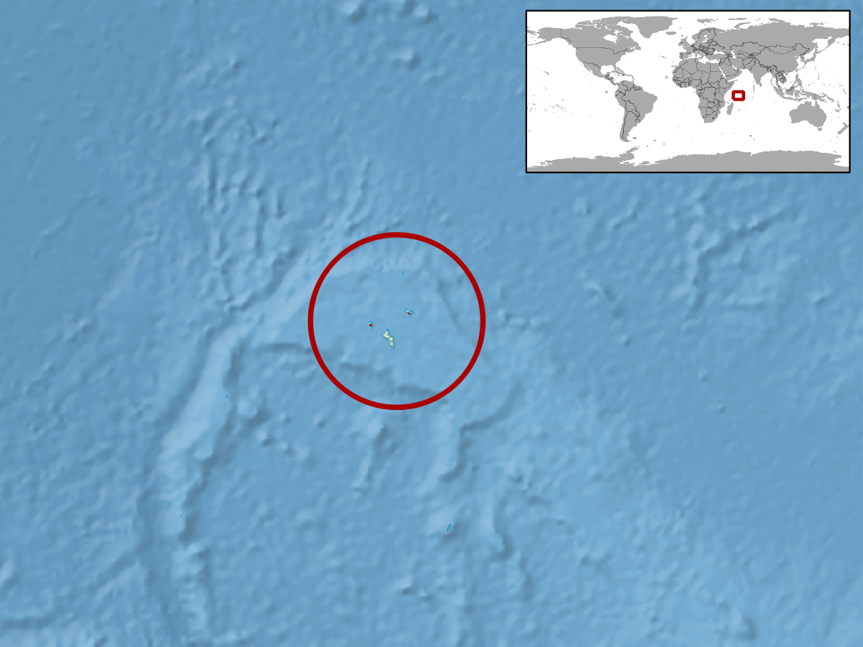 geographic distribution of Ailuronyx trachygaster (Native: Seychelles)